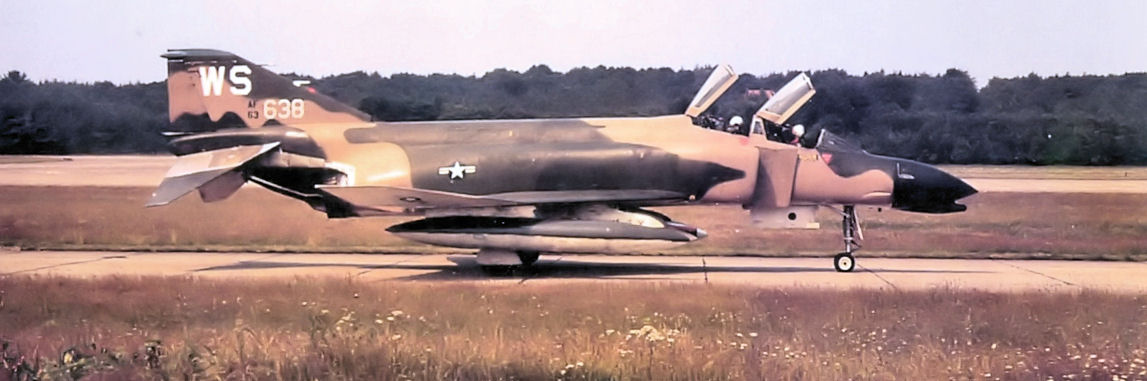 91st Tactical Fighter Squadron - McDonnell F-4C-20-MC Phantom - 63-7638